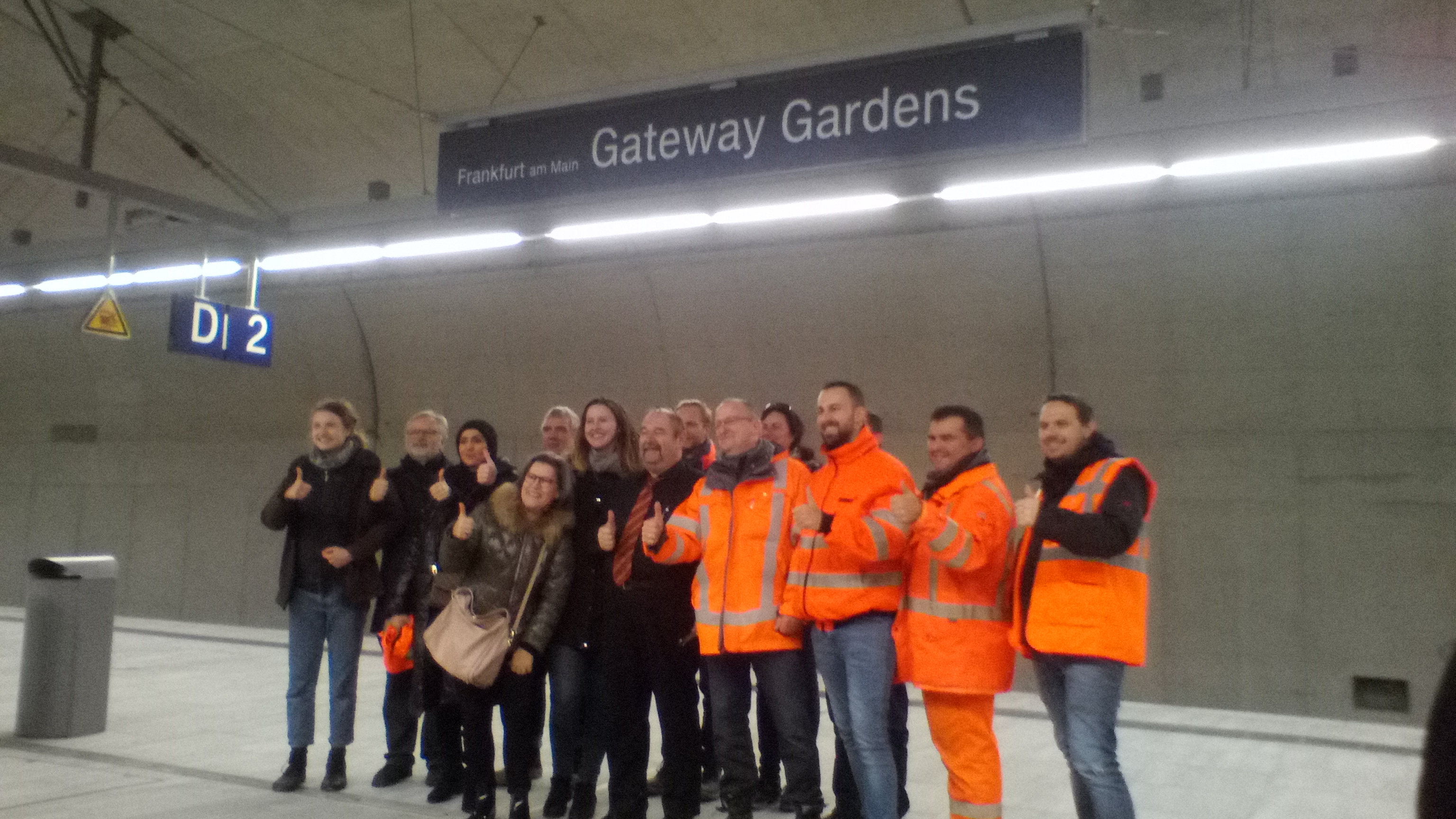 Frankfurt Gateway Gardens station on opening night, with construction workers giving a thumbs up after the first two trains had arrived and departed.